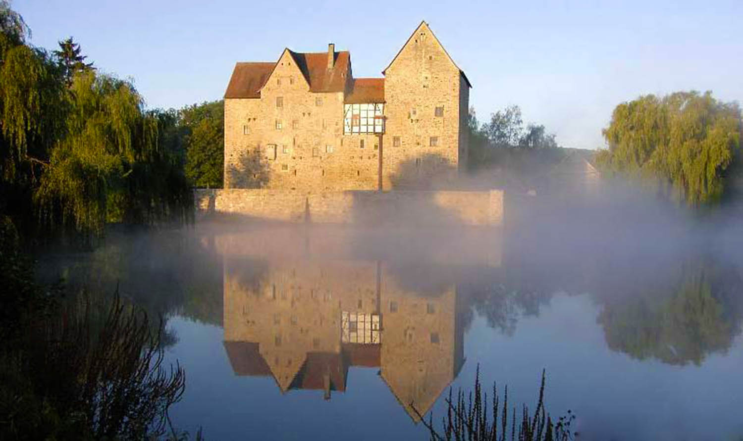 Brennhausen Castle, Franconia, Bavaria, Germany. View from the East.